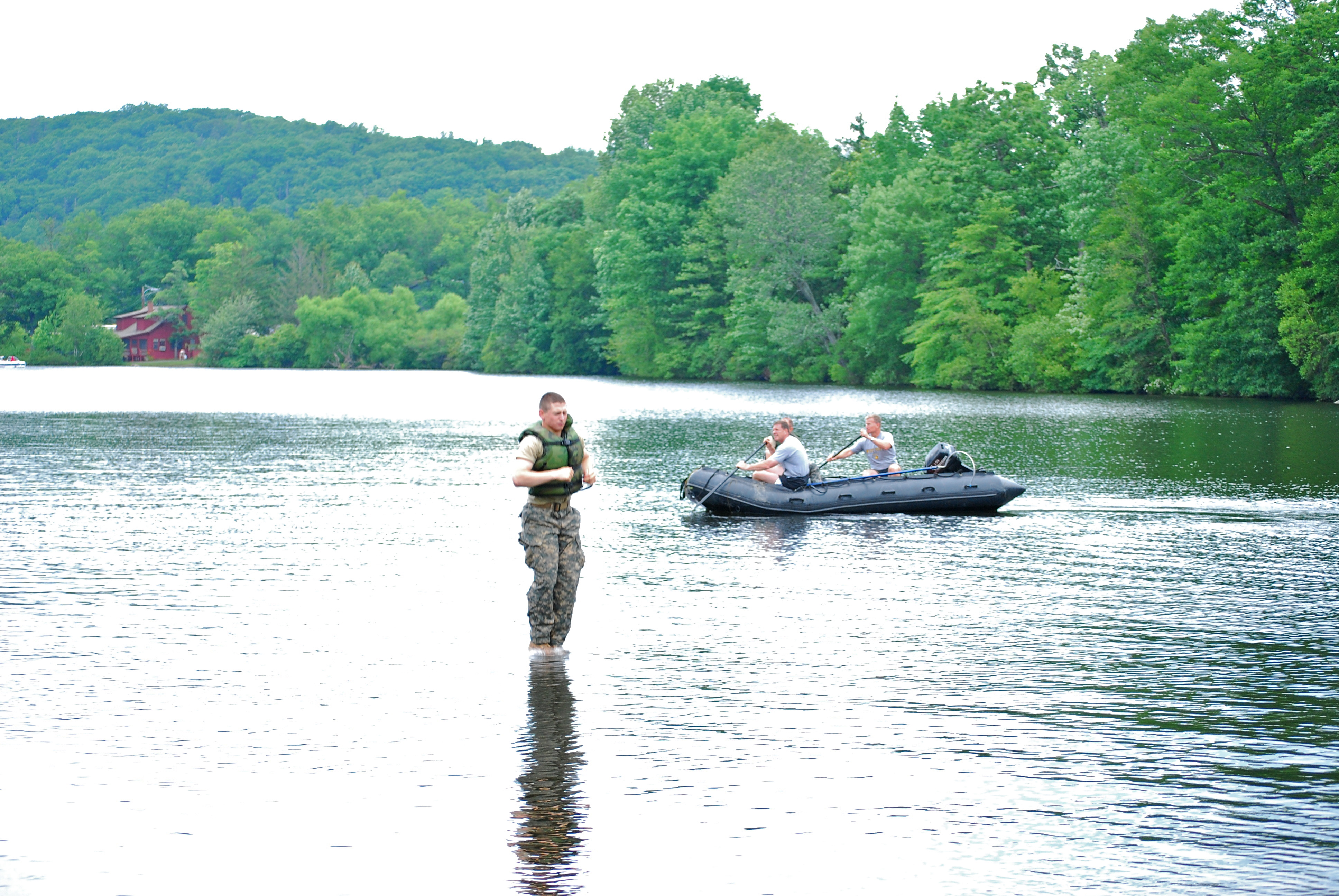 A West Point Cadet during military training on Lake Popolopen. The cadet dropped from a 20 foot wire strung above the lake surface.